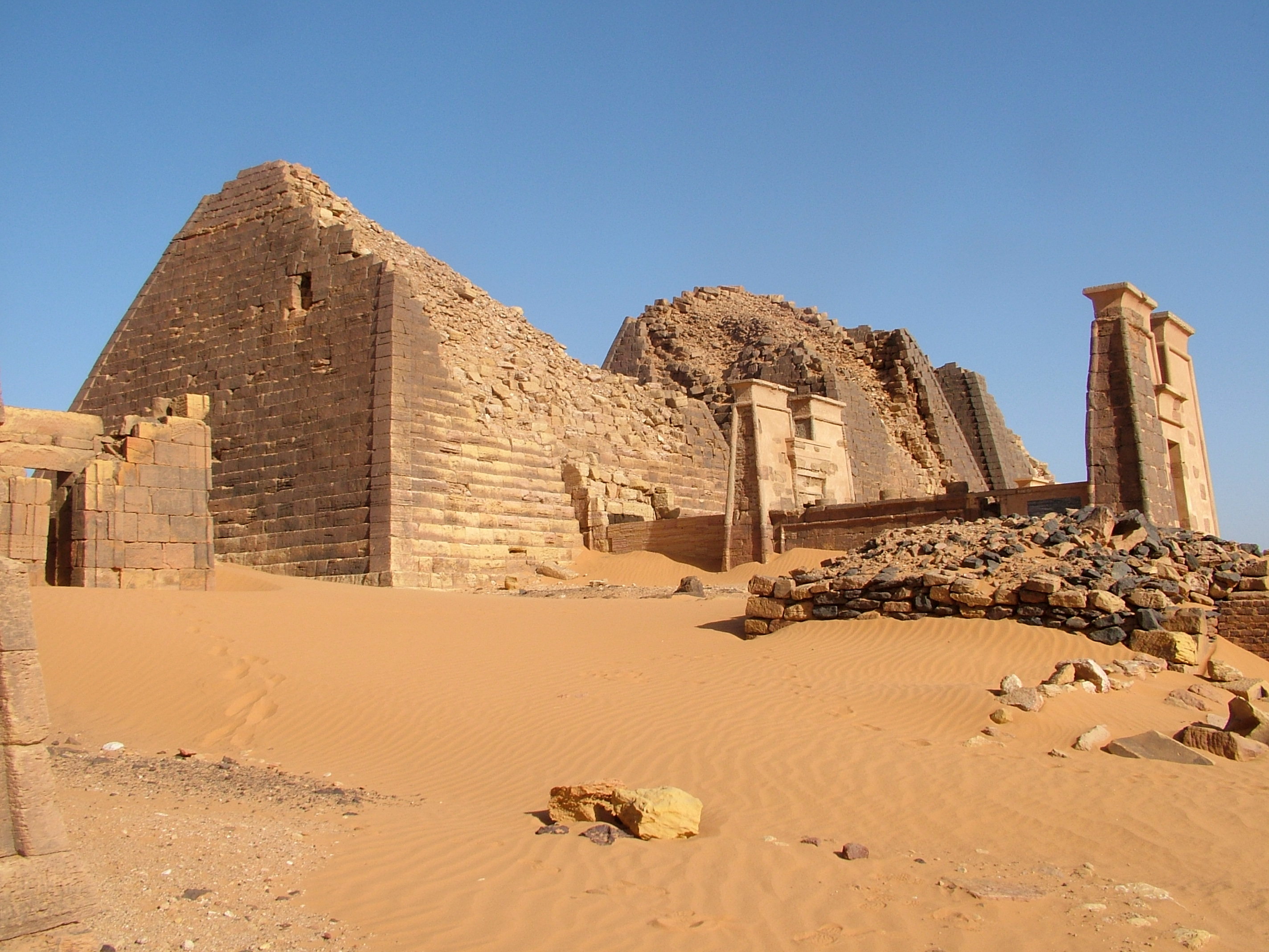 Shanadakheto (meroitic) queen's pyramid in Meroe